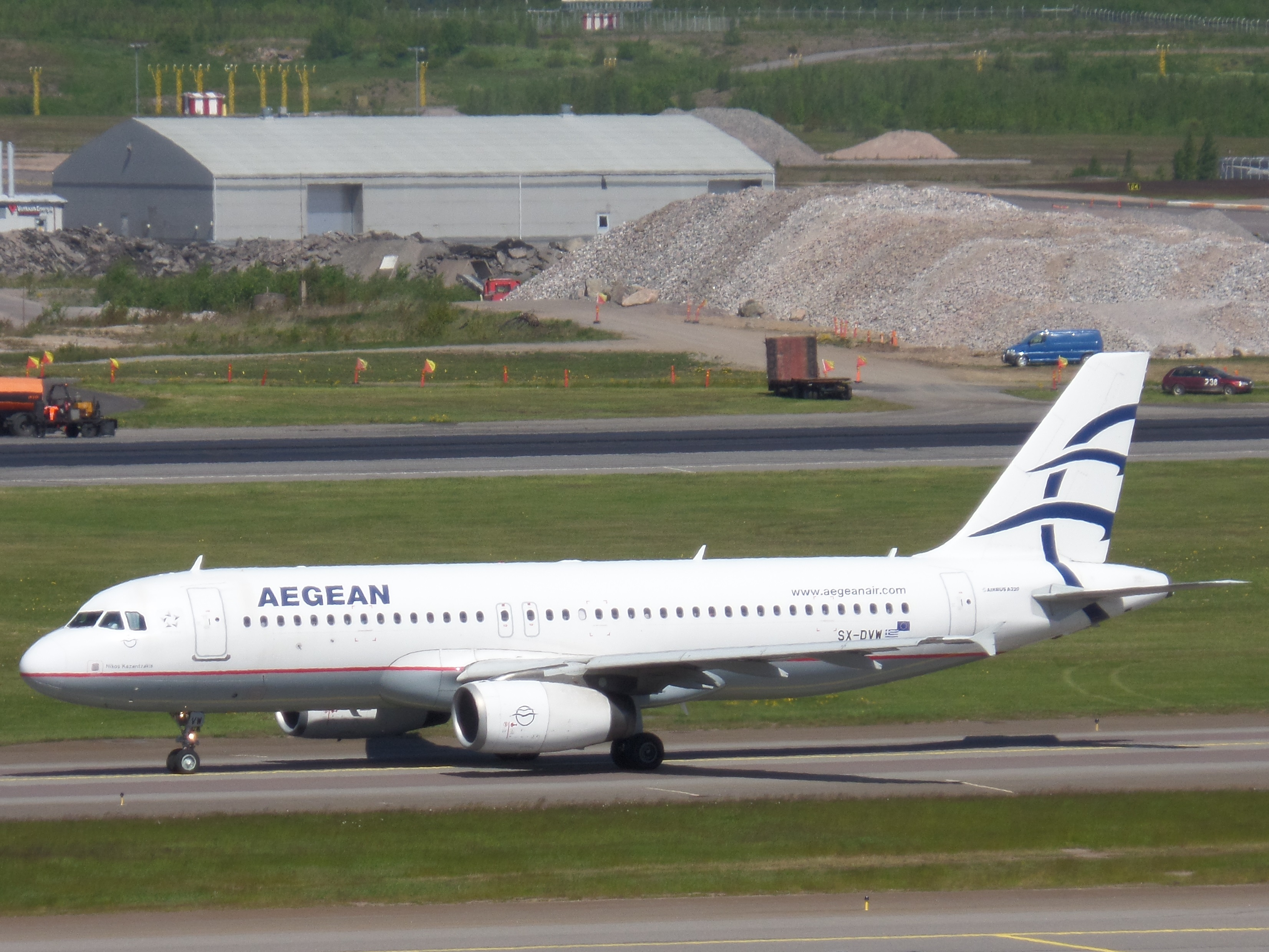 Aegean Airlines Airbus A320-232 SX-DVW at Helsinki-Vantaa Airport on 5 June, 2015.